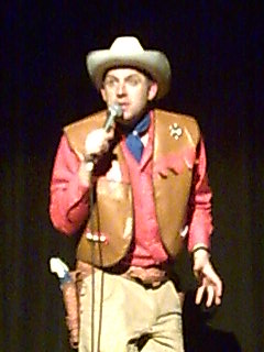 Tim Vine in Edmonton during the Punslinger tour